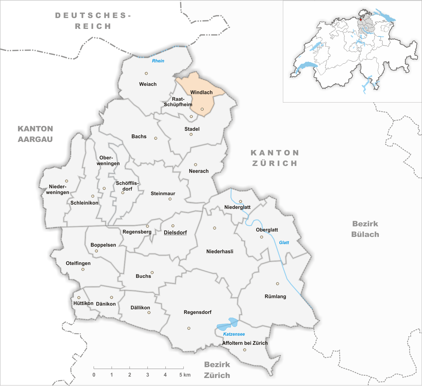 Municipality Windlach